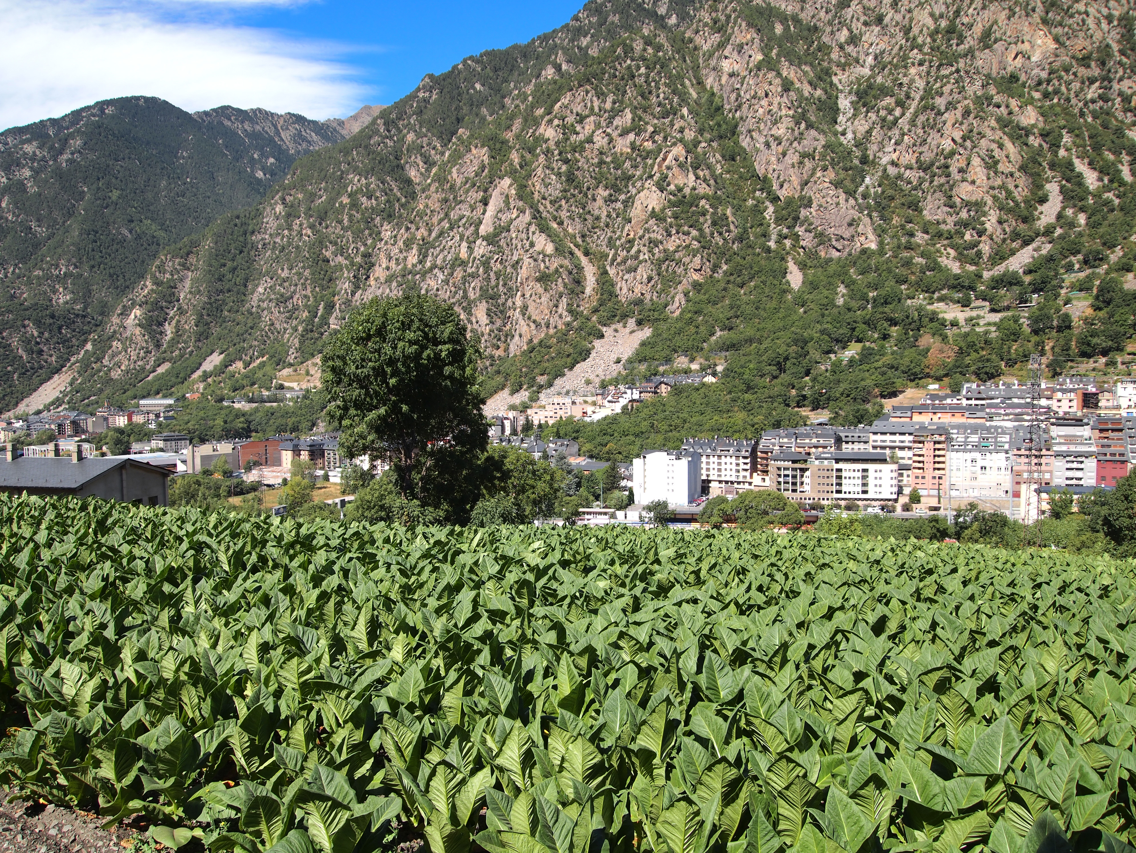 Plantation and mountain in Andorra la Vella. This photograph was taken with a Olympus E-PL1.